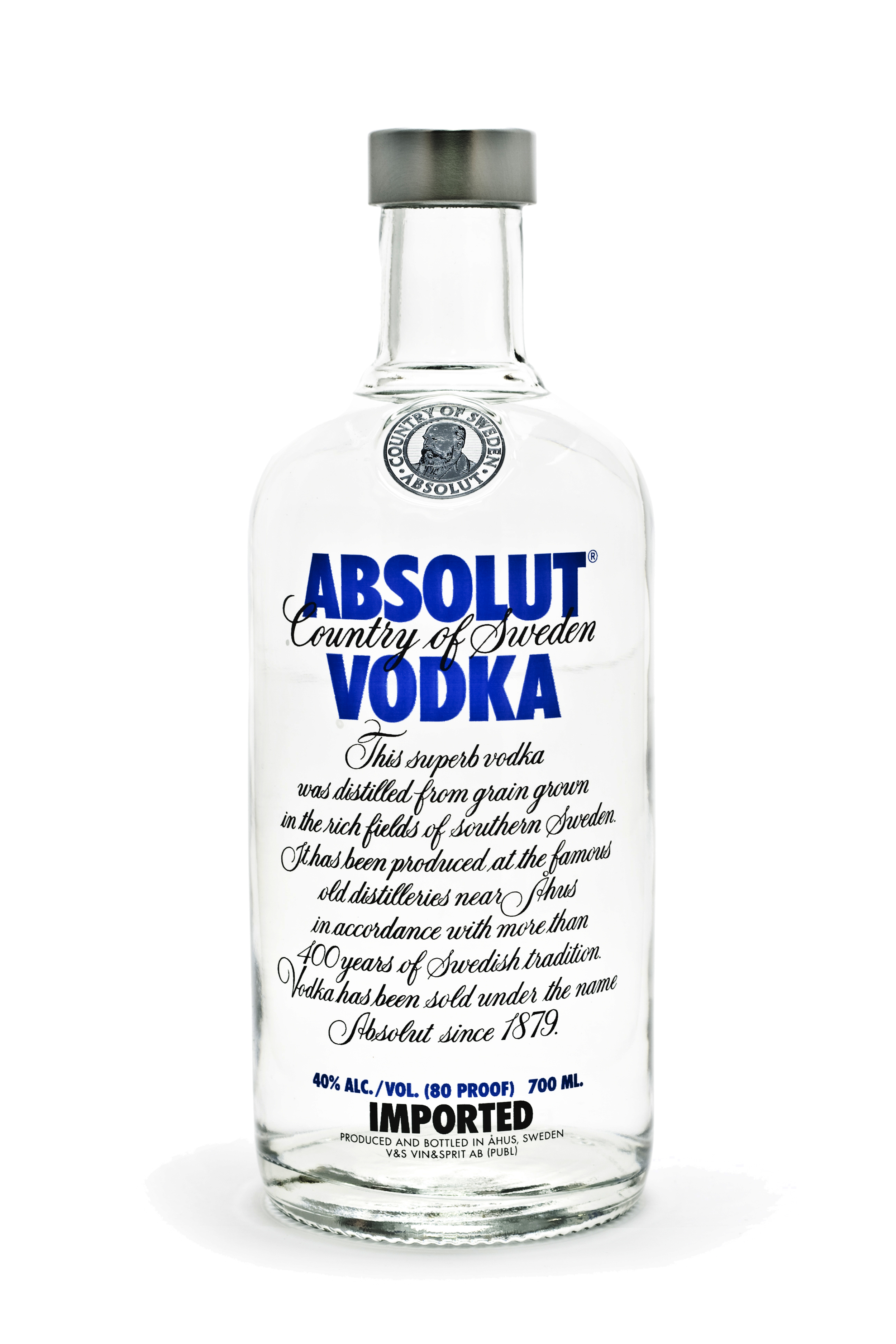 Bottle of Vodka Absolu